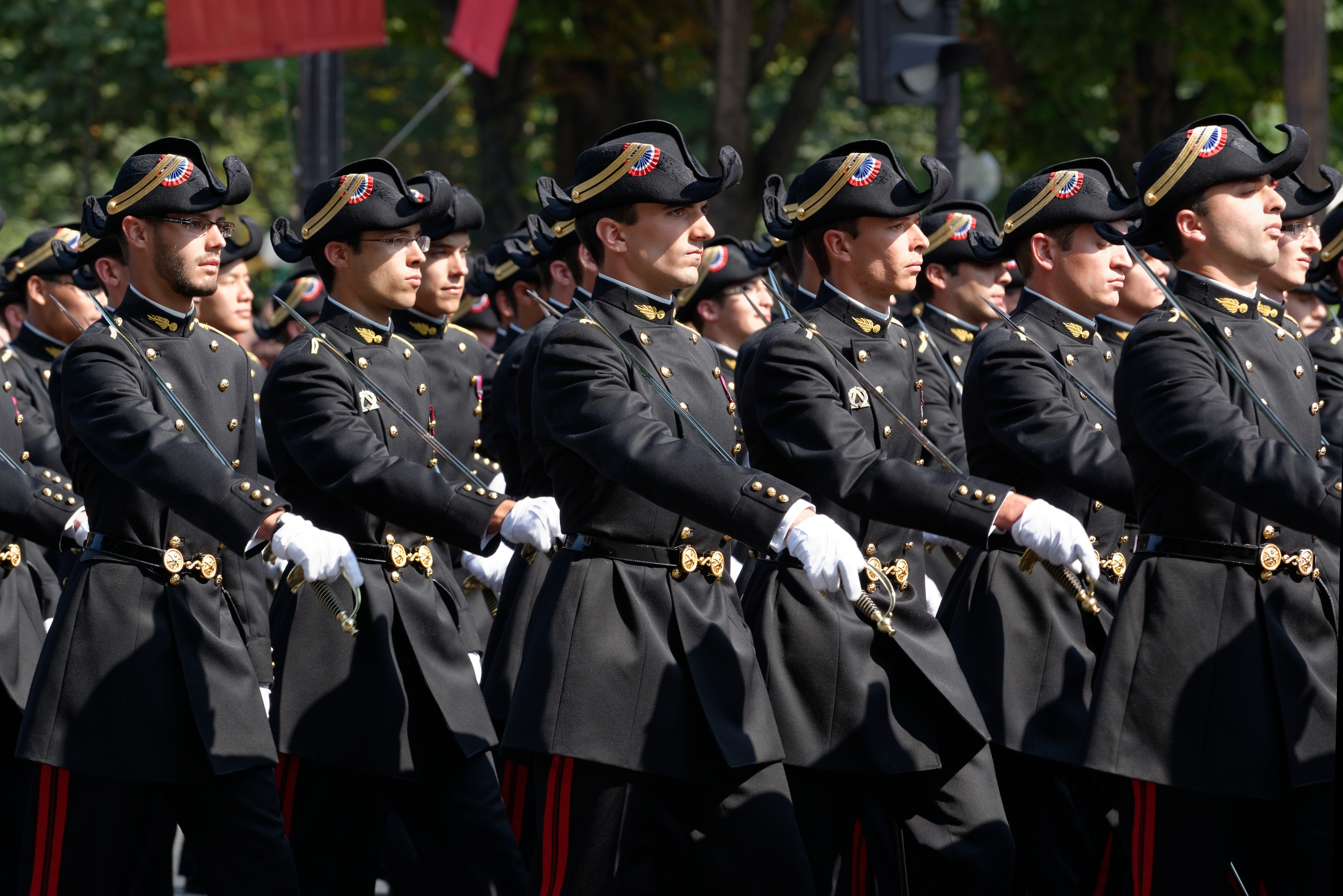 Cadets of École Polytechnique in the Bastille Day 2013 military parade on the Champs-Élysées in Paris.